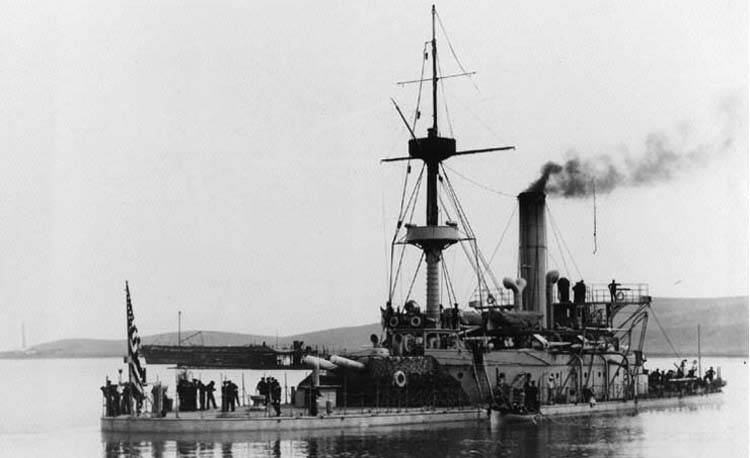 The USS Monterrey monitor